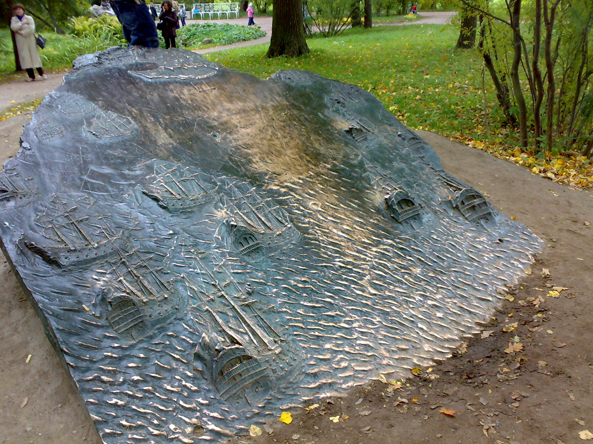 A fragment of a bas-relief of genuine Chesmenskaya column found at the bottom of the pond